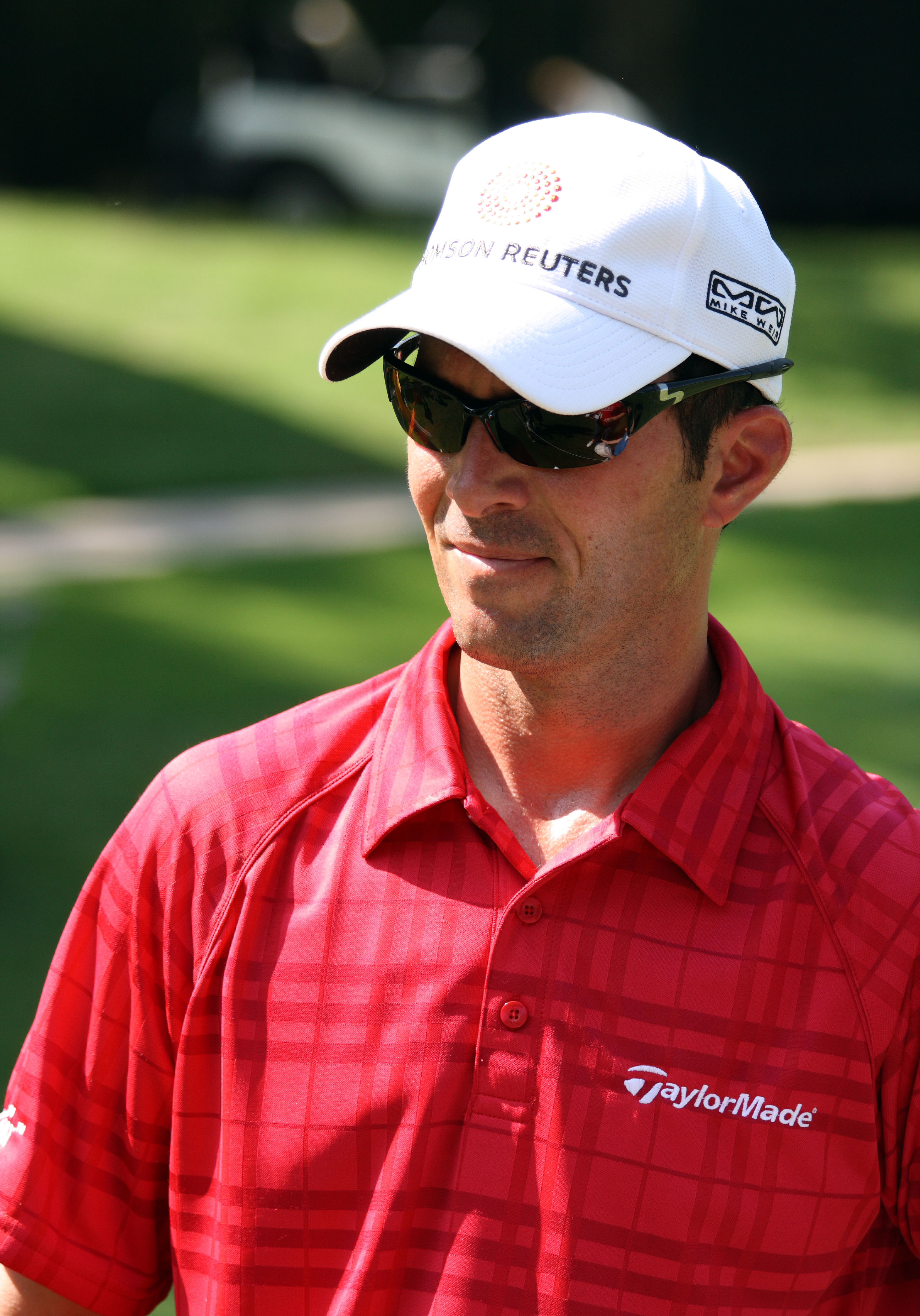 Mike Weir in 2010.